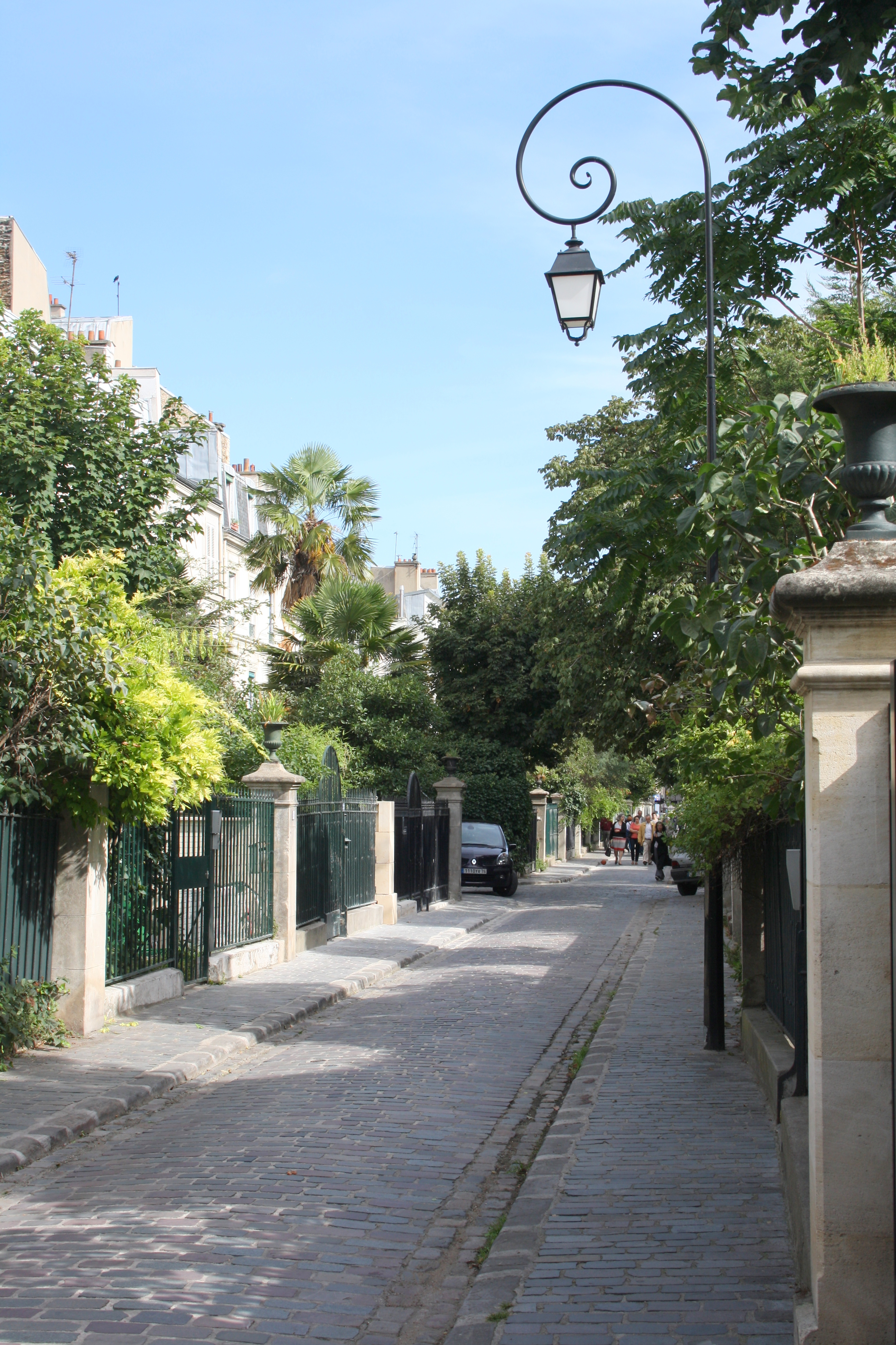 Private street in the 17th arrondissement of Paris, near Batignolles